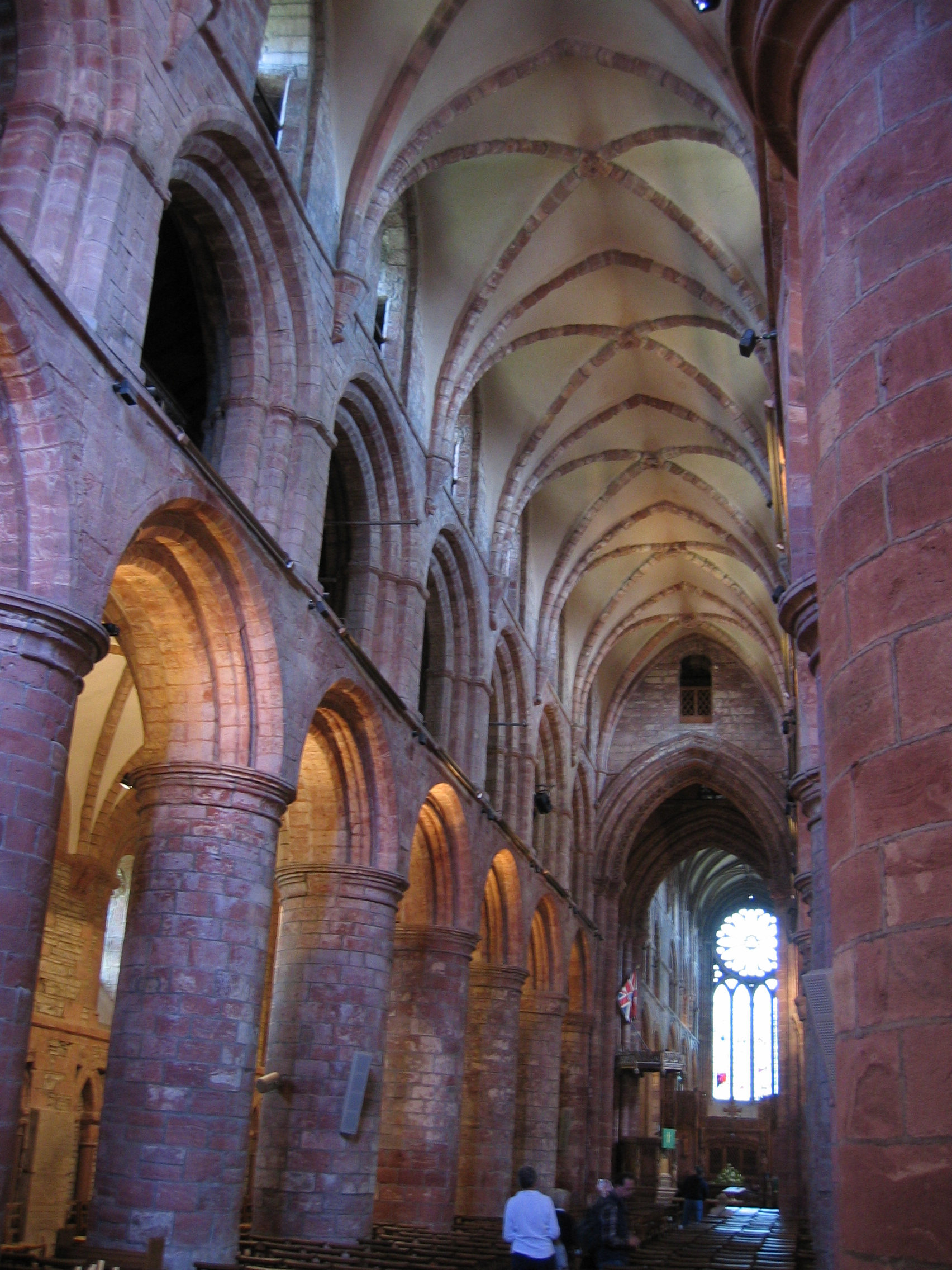 Interior of the St Magnus Cathedral Kirkwall, Orkney. Picture by Tim Bekaert (July 15, 2004).